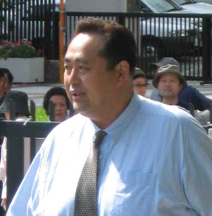 taken by me at 2008 Sept tournament